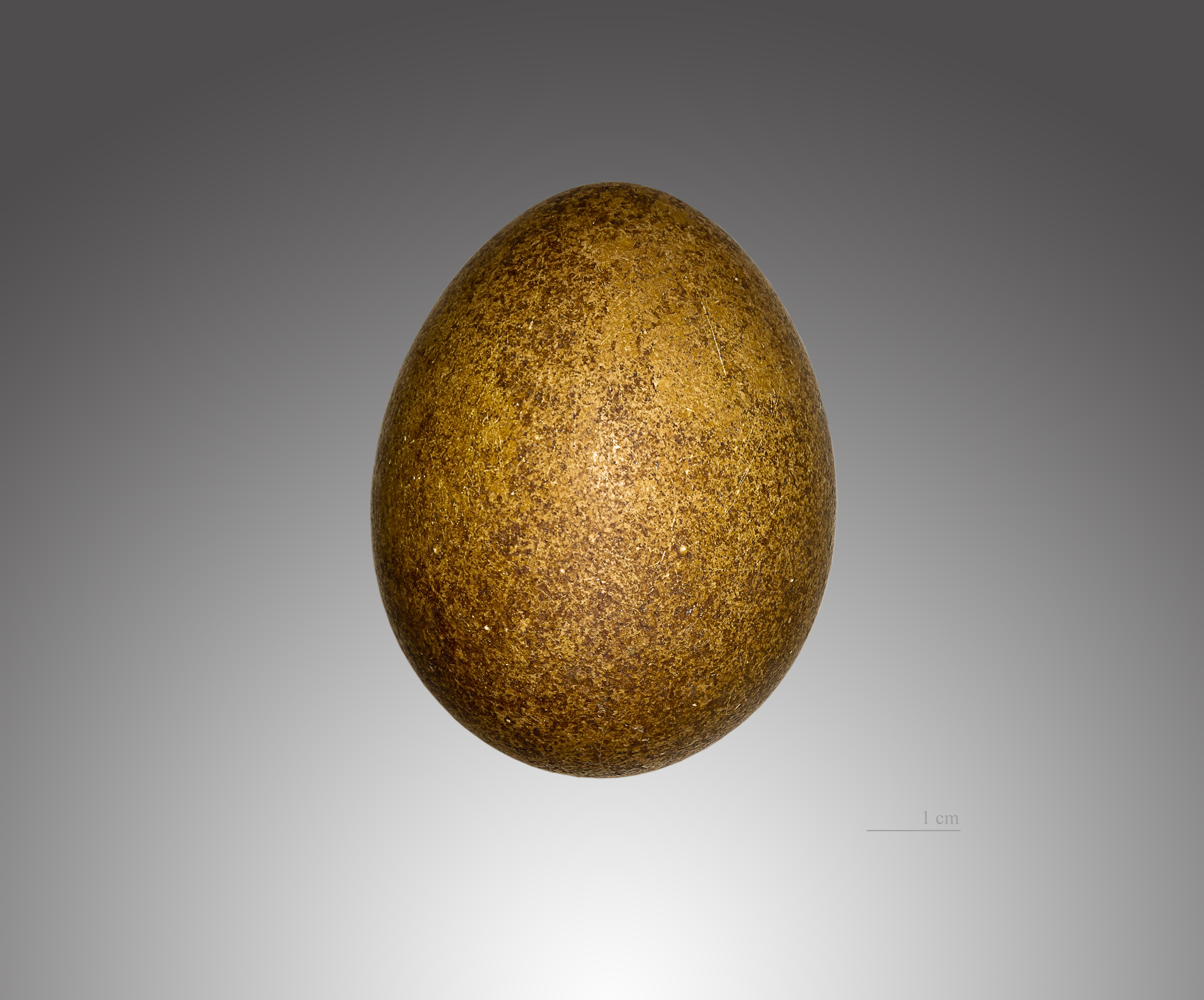 Egg of Gyrfalcon. Collection of René de Naurois /Jacques Perrin de Brichambaut. Locality: Kultuna, Enontekiö, Finland.